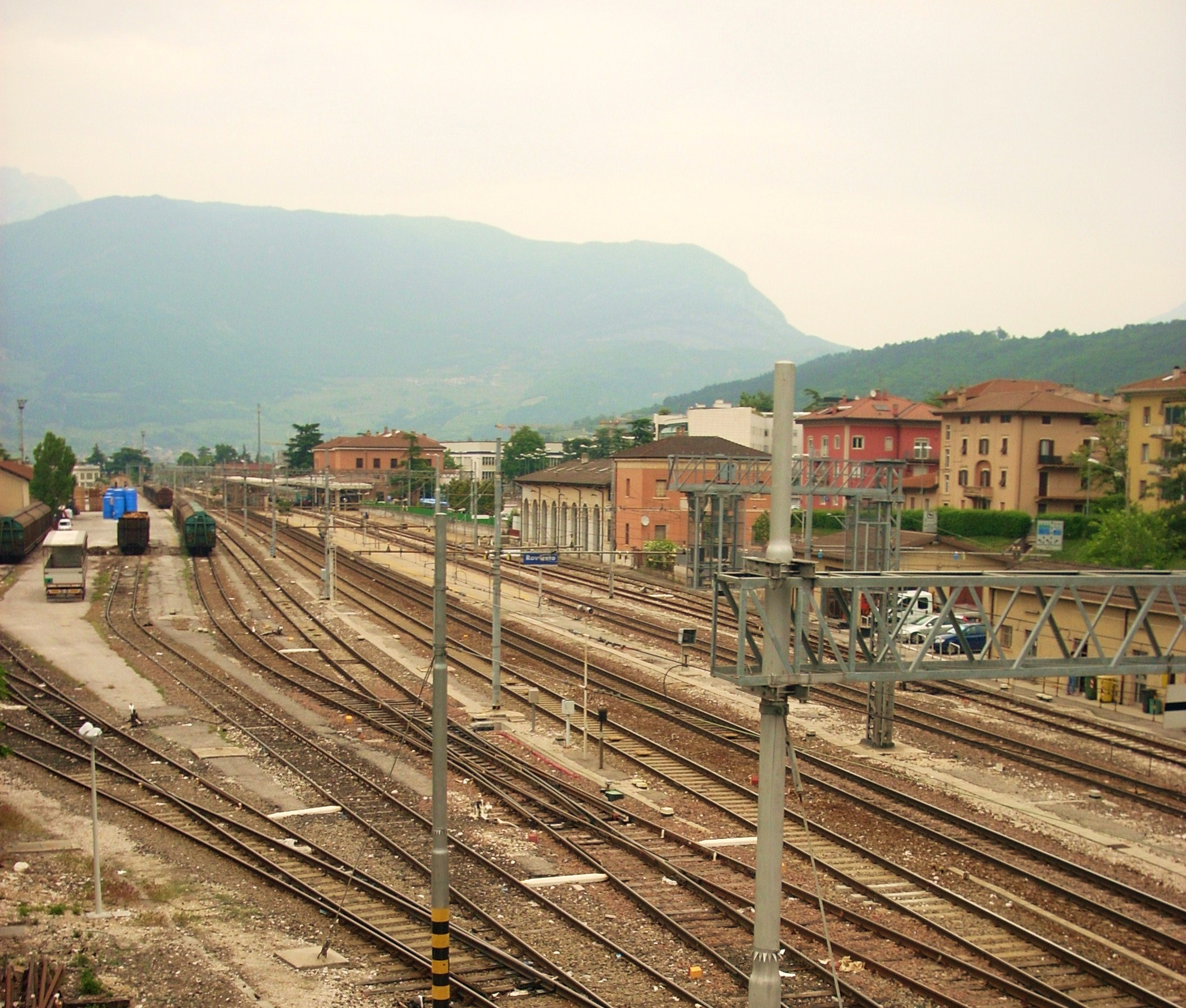 Rail Station of Rovereto (TN)